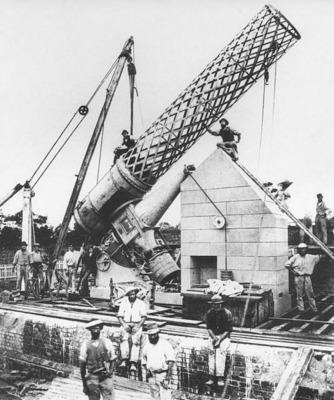 The Great Melbourne Telescope, at one time the second largest telescope in the world, being built in 1869 after it was shipped in pieces from the works of Howard Grubb, Dublin.